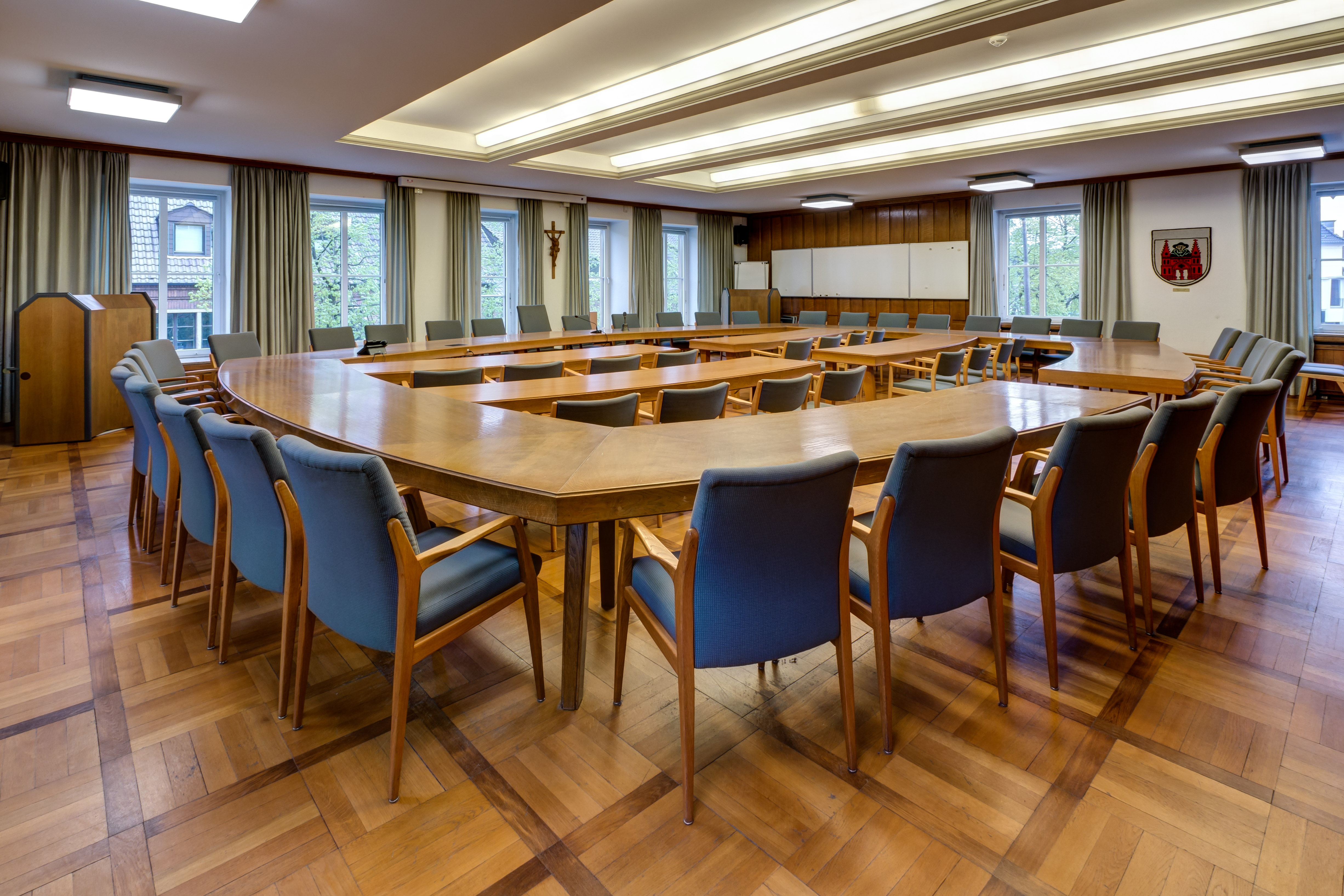 Local government plenary chamber in the town hall in Dülmen, North Rhine-Westphalia, Germany This image shows a heritage building in Germany, located in the North Rhine-Westphalian city Dülmen (no. 126).